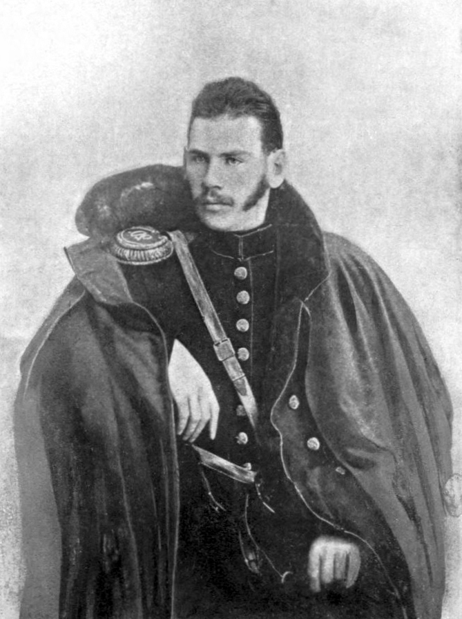 Leo Nikolayevich Tolstoy 1854